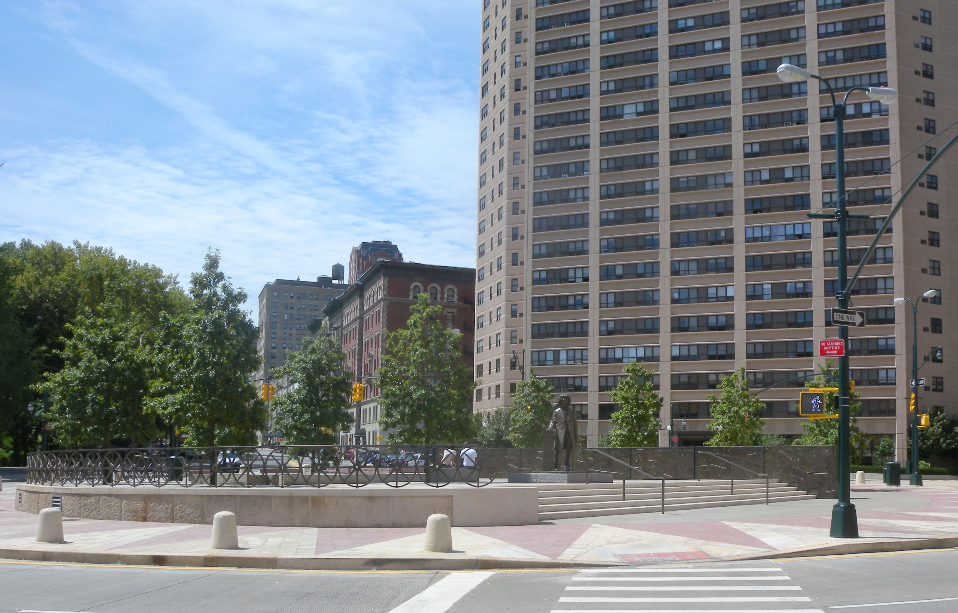 Looking southwest at Frederick Douglass Circle on a sunny midday.